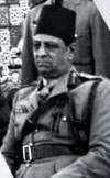 Mohammed Haidar-pasha (1920-1965), egyptian Minister of War (1948-1950)